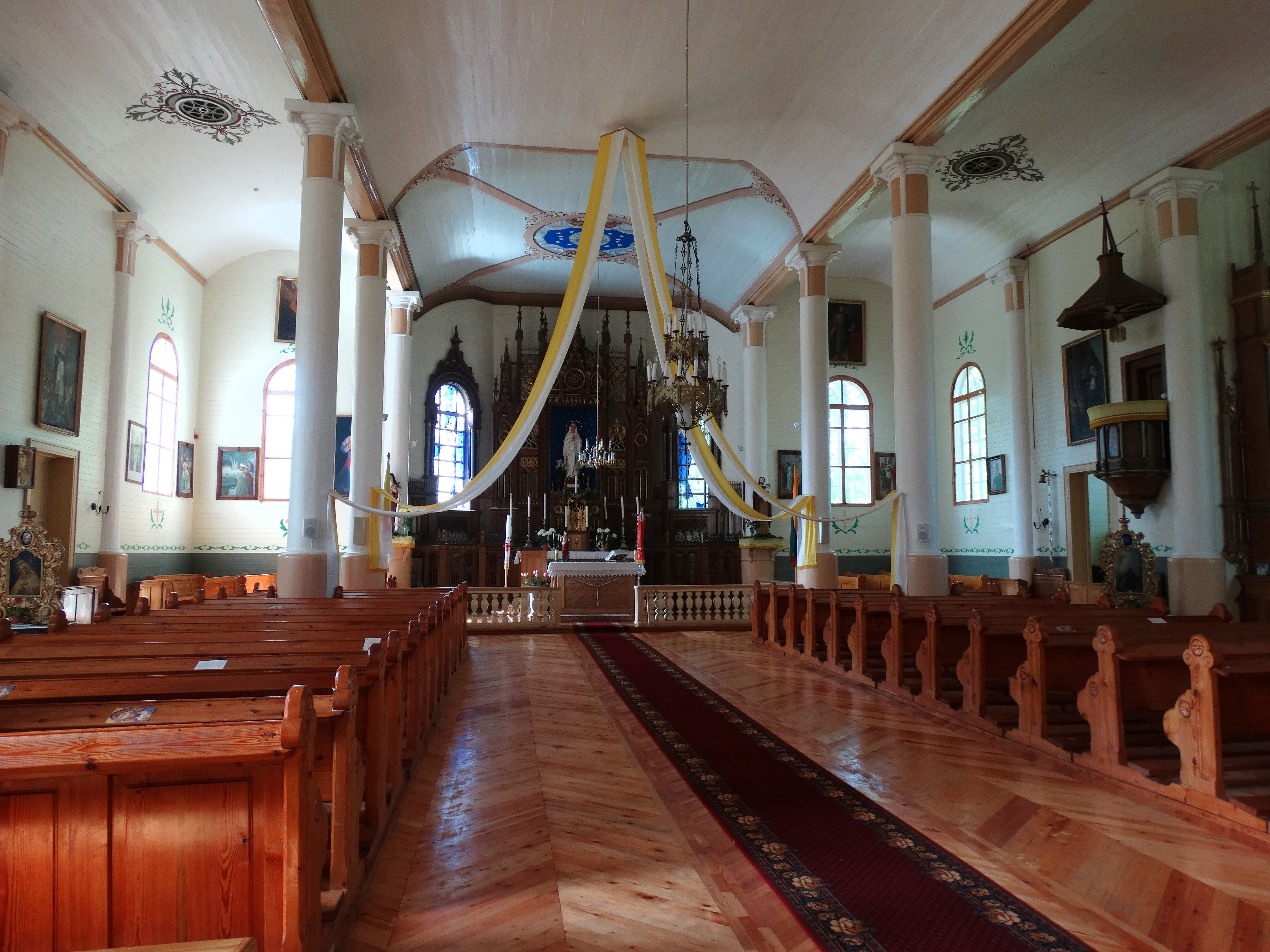 Church of Saint Mary the Virgin, Skiemonys, Anykščiai District, Lithuania